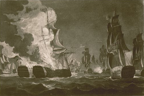 Ships of the line Real Carlos and San Hermenegildo explode, 12 July 1801